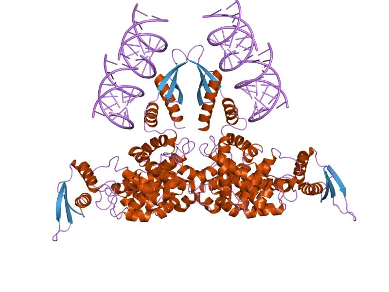 Cartoon representation of the molecular structure of protein registered with 1yyw code.